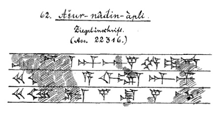 Brick inscription of Aššūr-nādin-apli (1207–1204 BC)